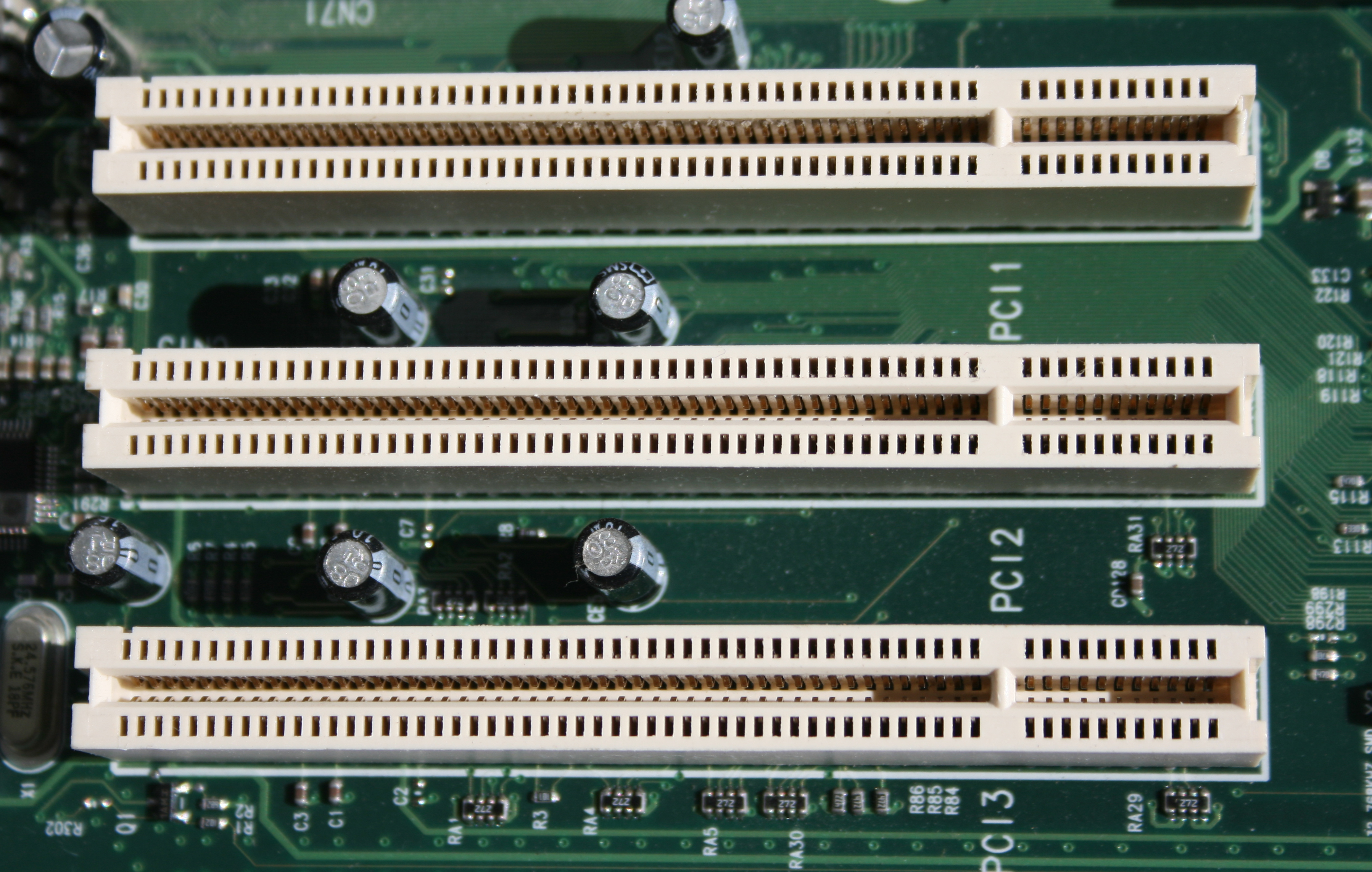 A photo of three 32-bit PCI slots.